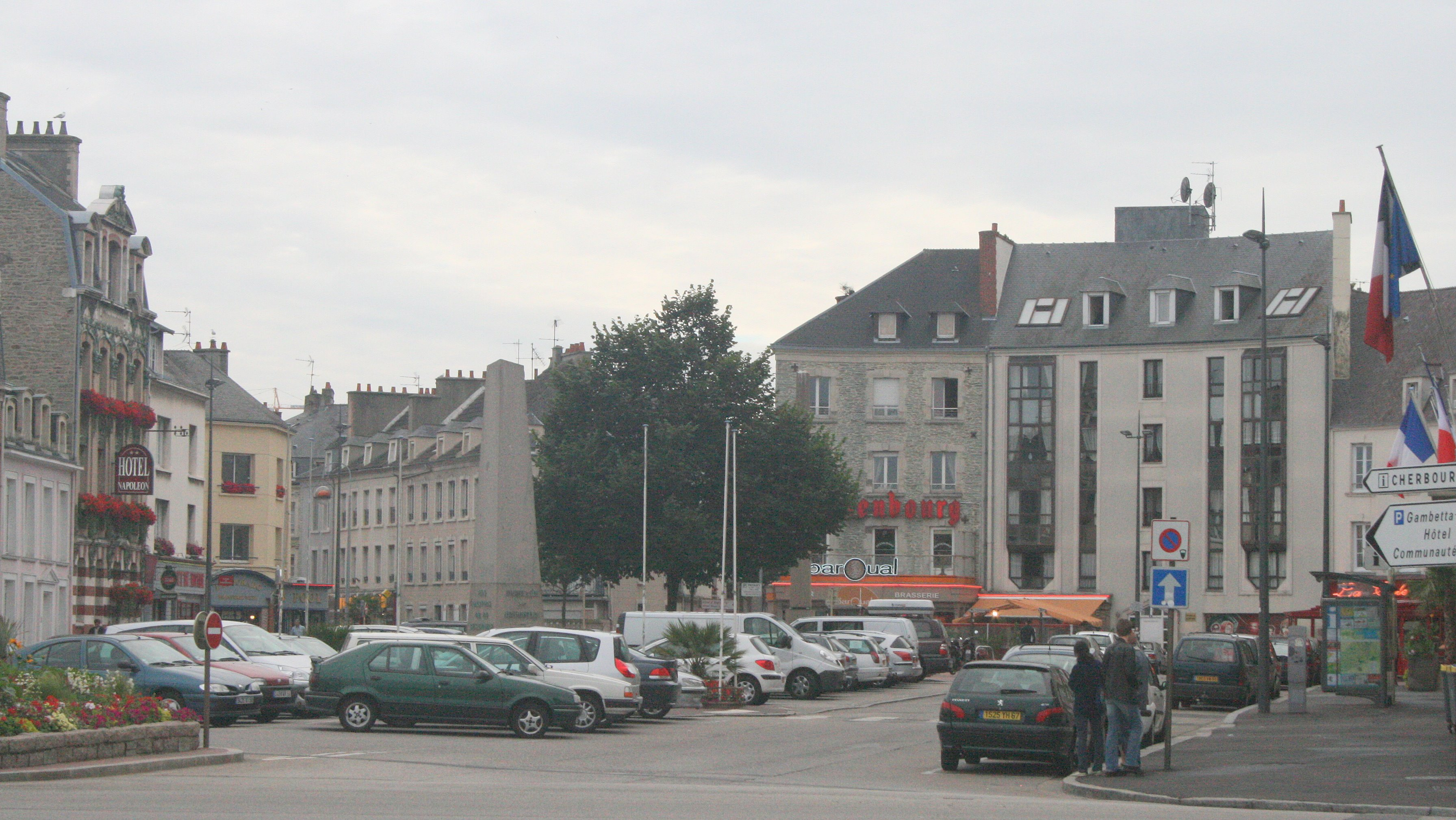 Cherbourg town centre